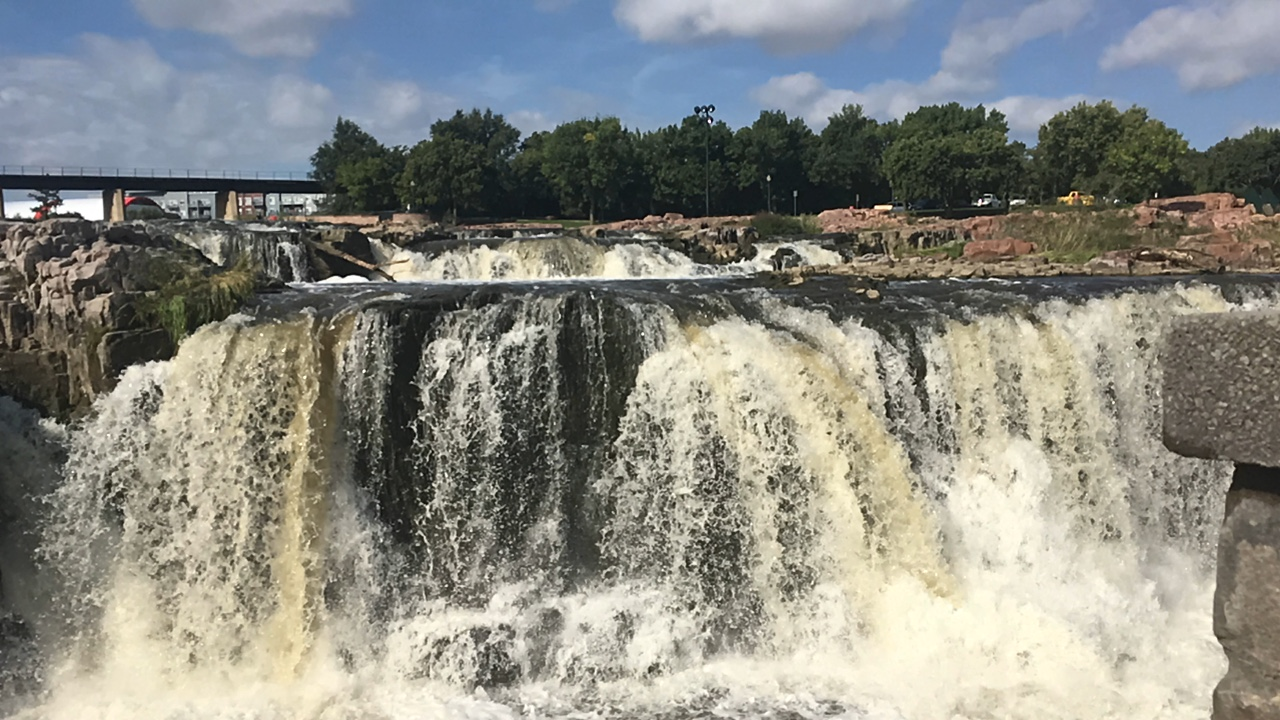 Falls Park on the Big Sioux River in Sioux Falls, South Dakota